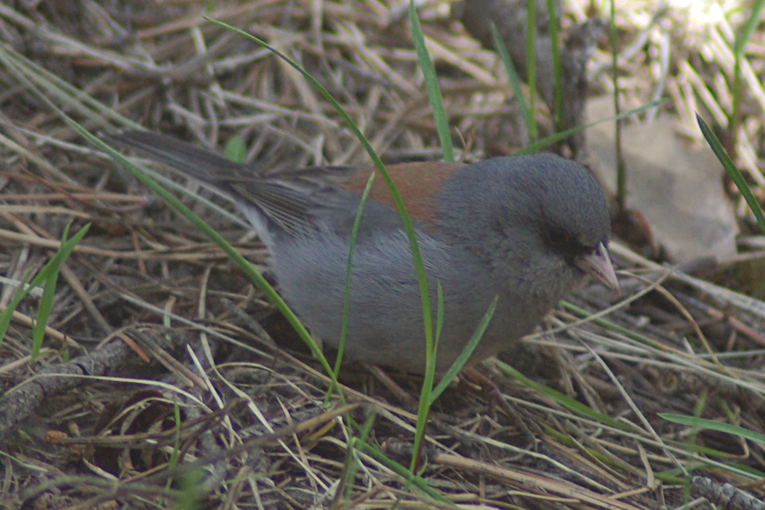 "Gray-headed" Dark-eyed Junco, Junco hyemalis caniceps, Borrego Mesa, New Mexico